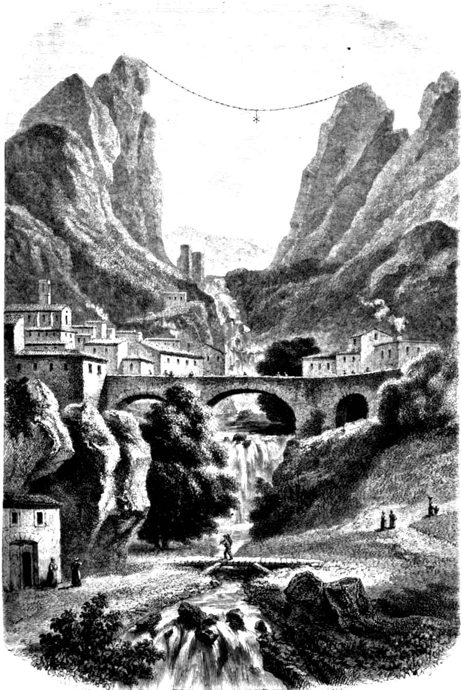 Engraving of Moustiers-Sainte-Marie